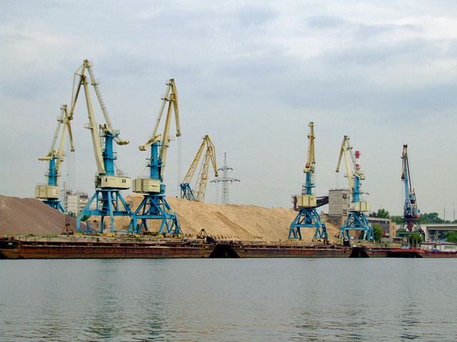 Western River Port in Moscow